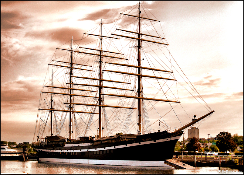 The Moshulu was built in 1904. That odd looking thing under the bow is a partly-sunken work float which is used to help maintain the ship, one of two. In 2010 it sank completely and in 2011 it is being re-floated.